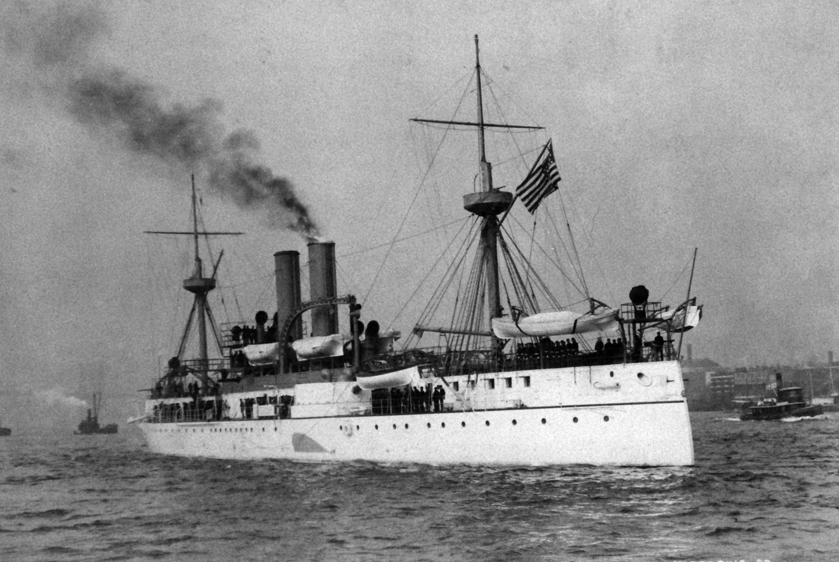 Lot 3000-N-18: USS Maine (ACR-1) stern view. Published by Detroit Publishing Company, between 1896-1912. Courtesy of the Library of Congress. (2016/03/31).